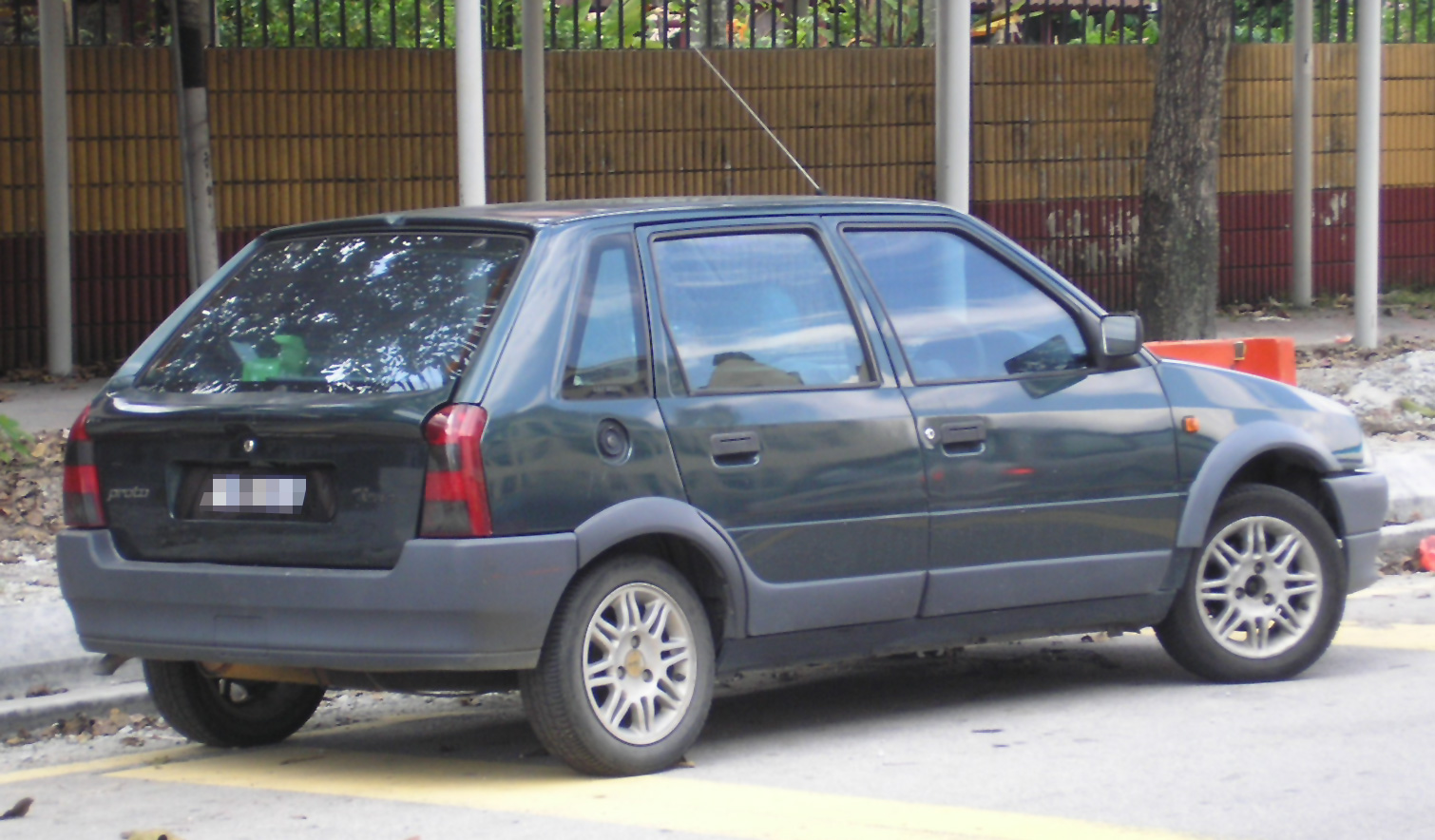 Rear quarter view of a first generation Proton Tiara, in Pudu, Kuala Lumpur, Malaysia. Note that plastic trims on the bottom of the car's right side are missing; see enclosed shots for comparison.